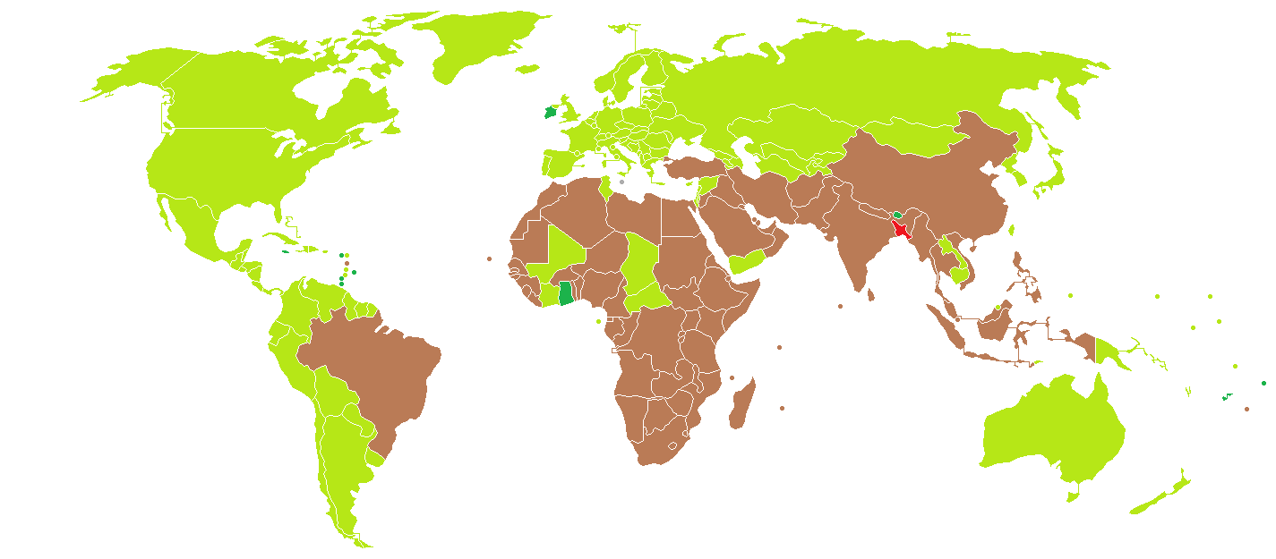 Visa policy of Bangladesh - alternative